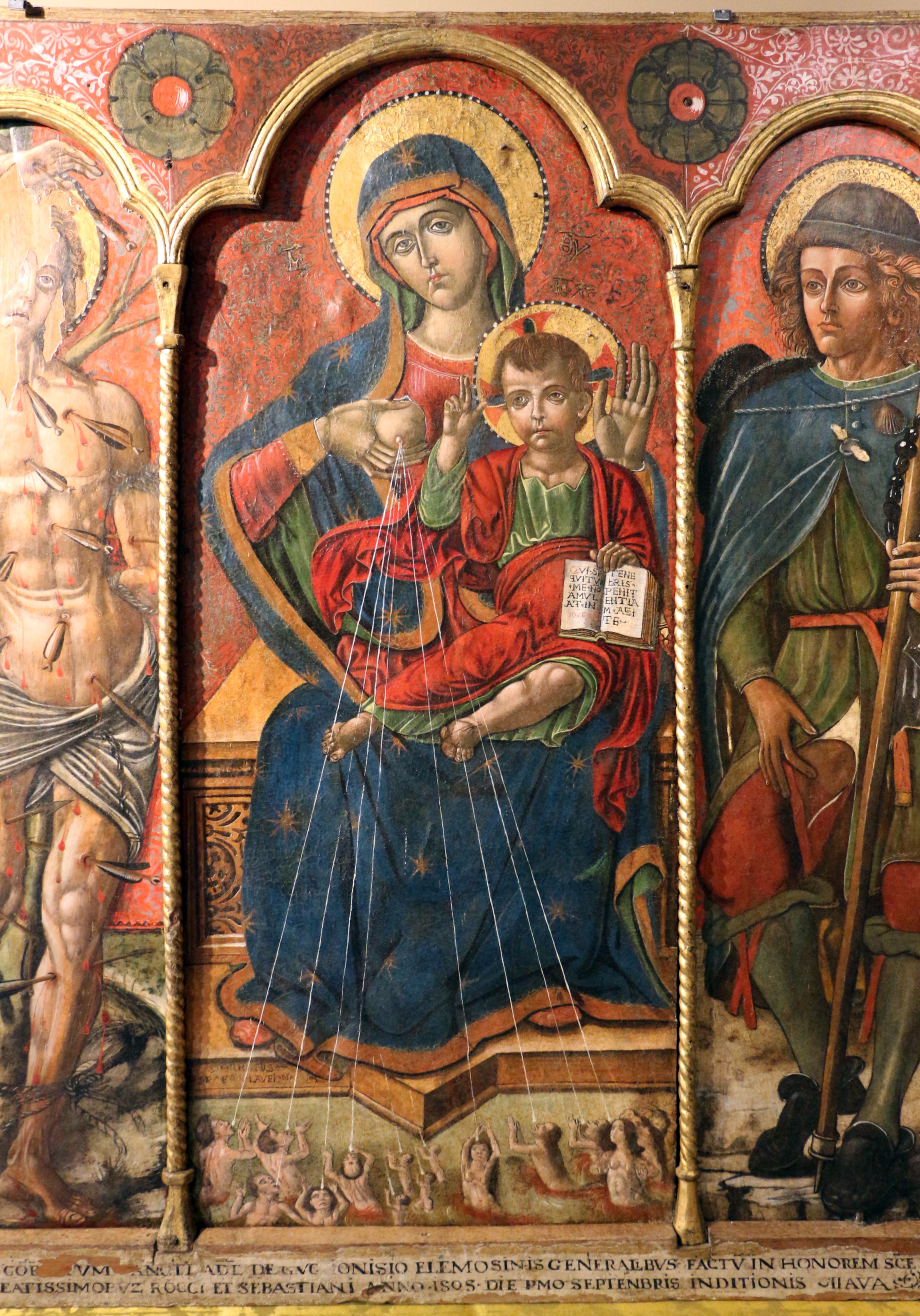 Il Tesoro d'Italia (exhibition at Expo 2015)